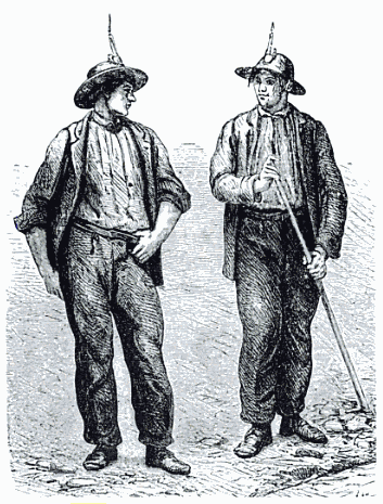 An engraving of Cornish miners from the St Ives area in 1866